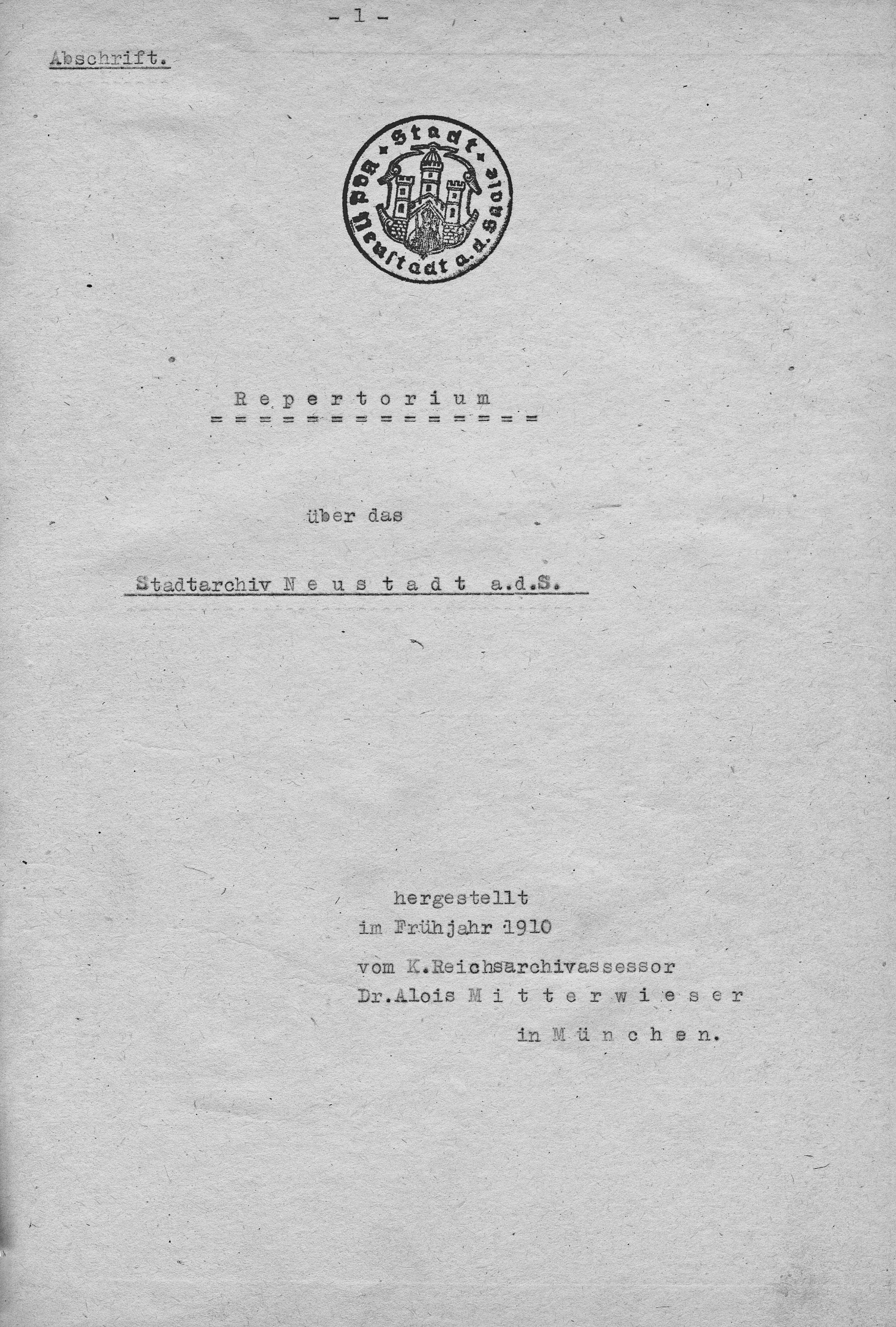 frontpage of the first repertory of the archive of Bad Neustadt an der Saale (Germany) by Alois Mitterwieser, spring 1910